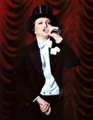 Photo taken during one of the concerts in 1993